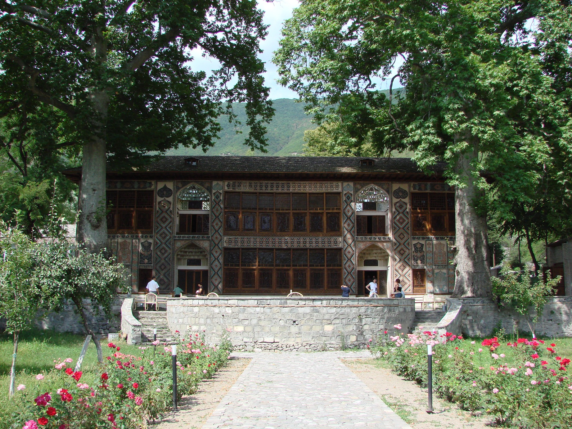 The palace of Sheki khans